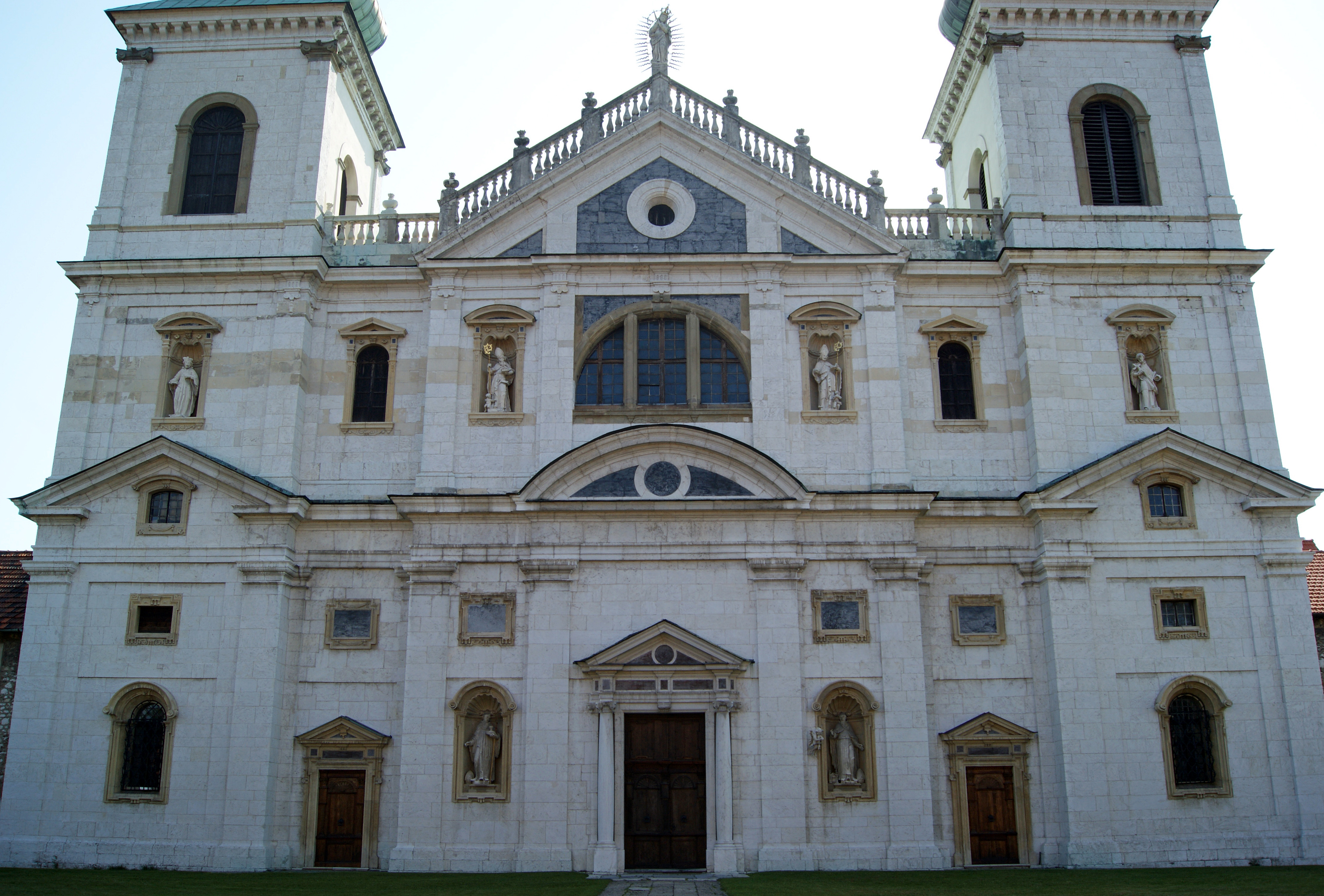 Church of Our Lady Assumed into Heaven (Camaldolese), 1 Konarowa Av, Bielany, Krakow, Poland